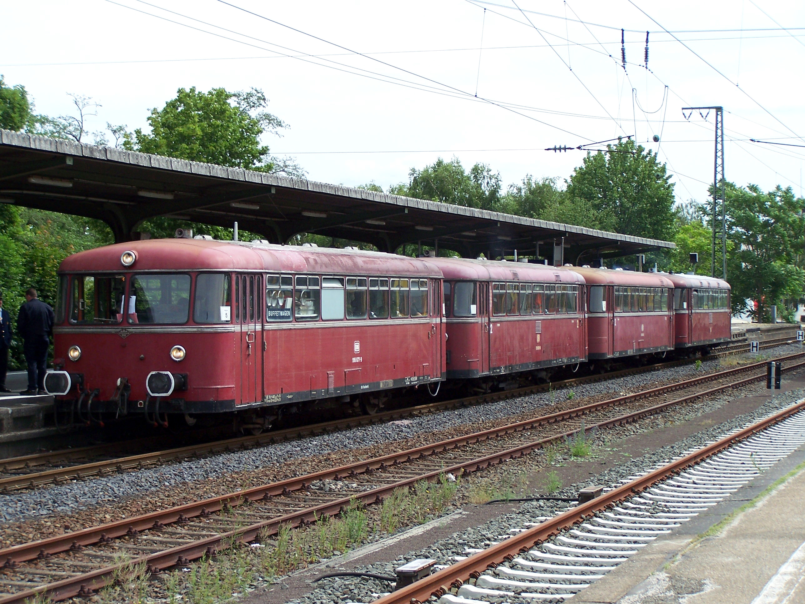 VT98 train set, consist of (seen from left to right): control cab coach (VS) 996 677-9, rail car (VT) 798 589-8, side car (VB) 998 184-6 and rail car VT 98 9829 operated by the Oberhessische Eisenbahnfreunde (OEF) in servive for the Historic Railway Frankfurt (HEF), ready for departure in Frankfurt-Höchst station for Königstein im Taunus, Whit Monday 2011